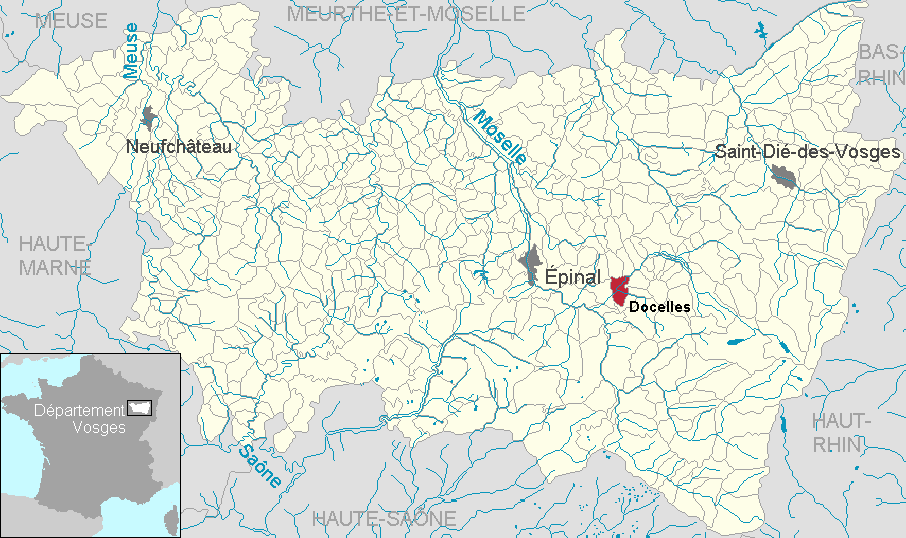 Docelles in the department of Vosges, Lorraine, France